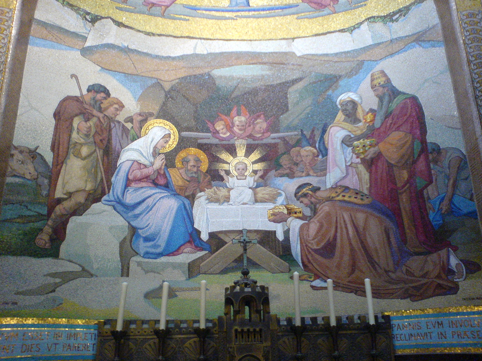 Mosaic in the Basilica